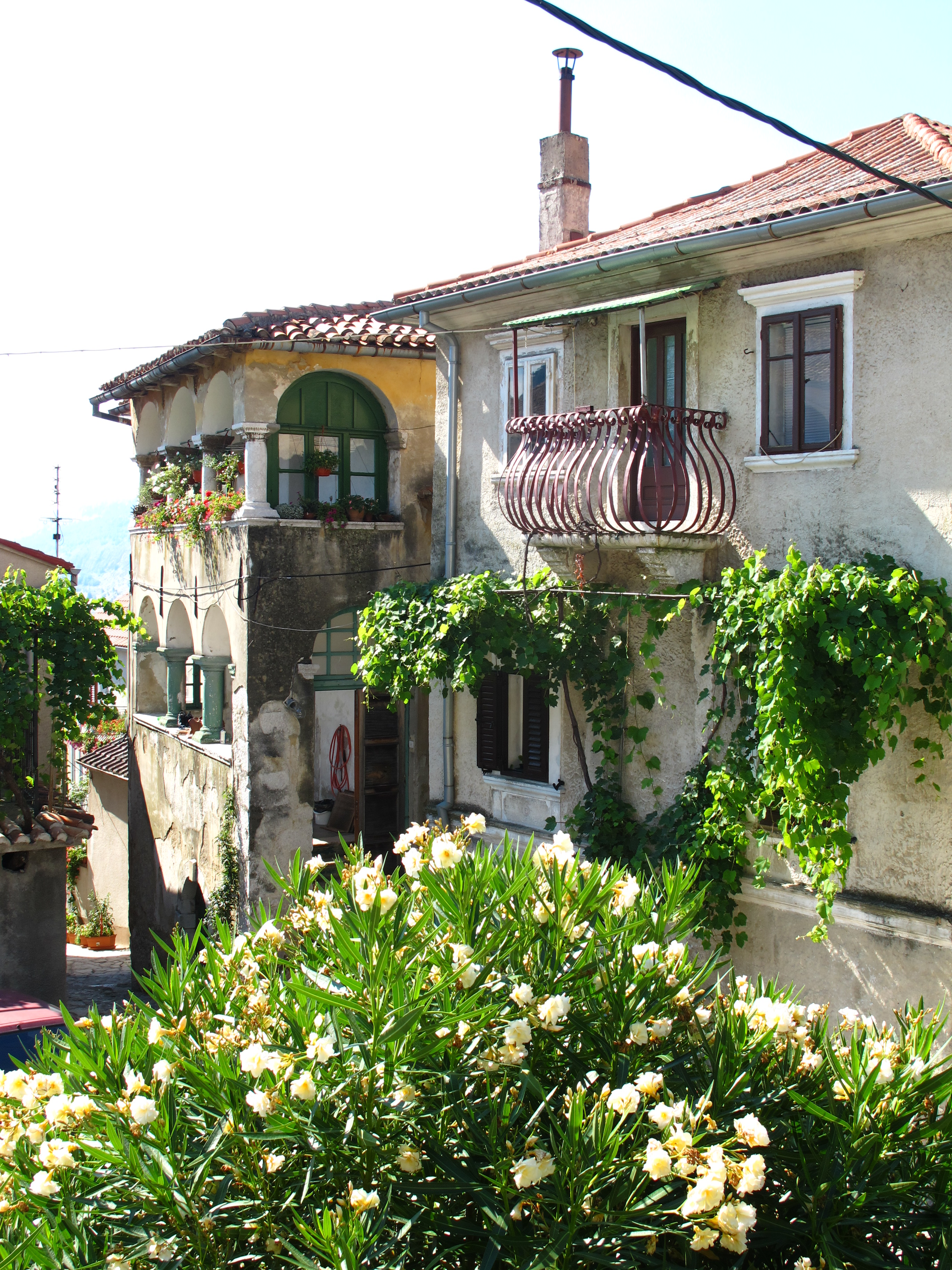 "Roman Houses" in Barkar at Bay of Bakar / Croatia / Adriatic Sea.